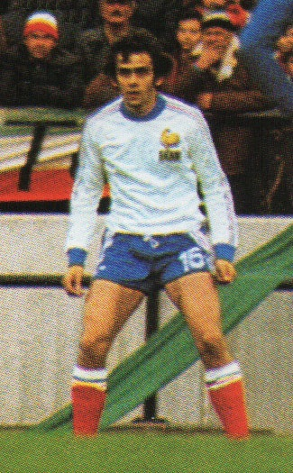 Michel Platini of France during the group stage match vs Italy of FIFA World Cup 1978 in Argentina.